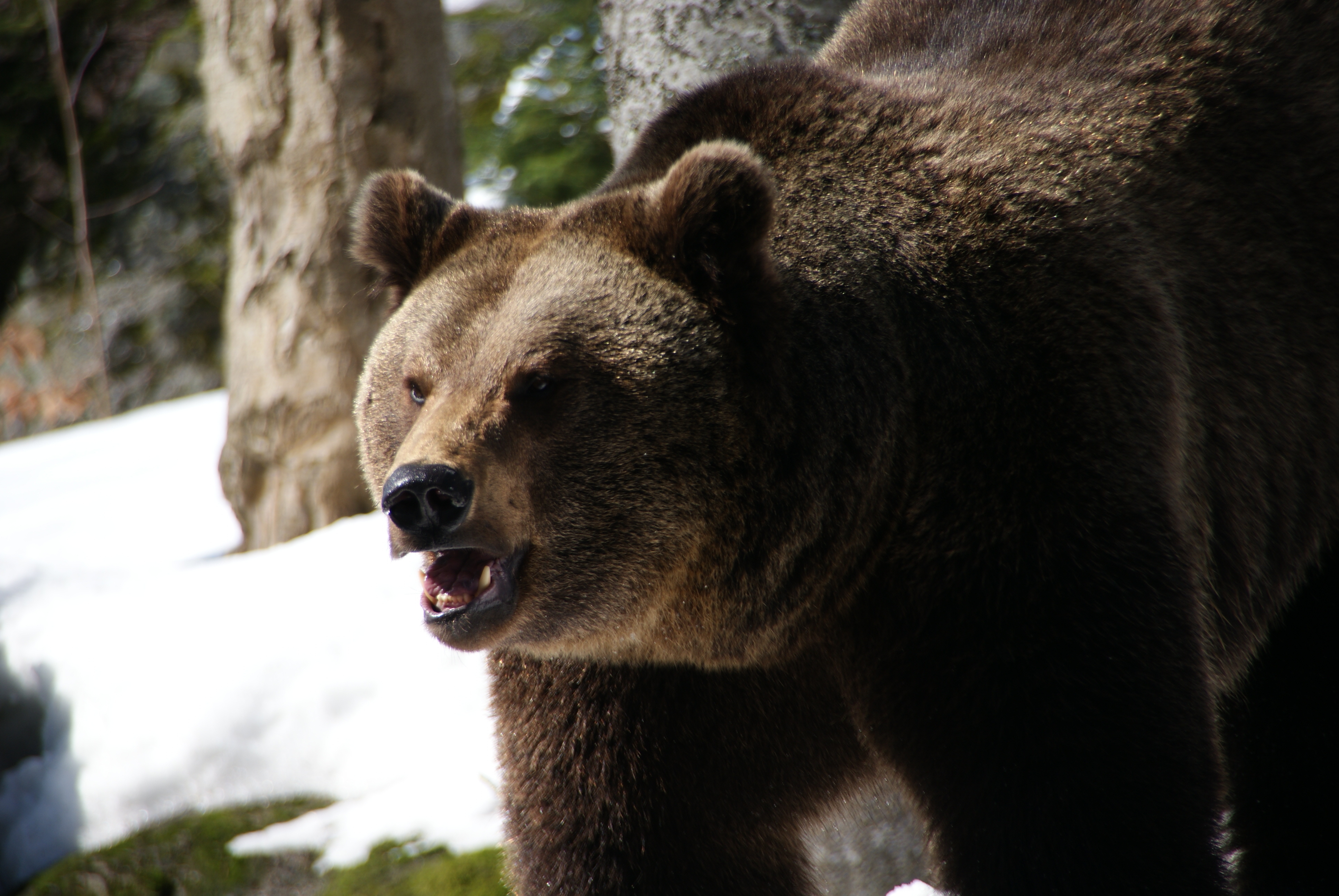 Brown Bear in an open-air enclosure at the National Park Bavarian Forest